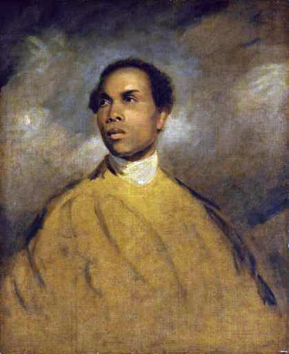 A Young Black (speculated to be Francis Barber, manservant of Samuel Johnson); Oil on canvas